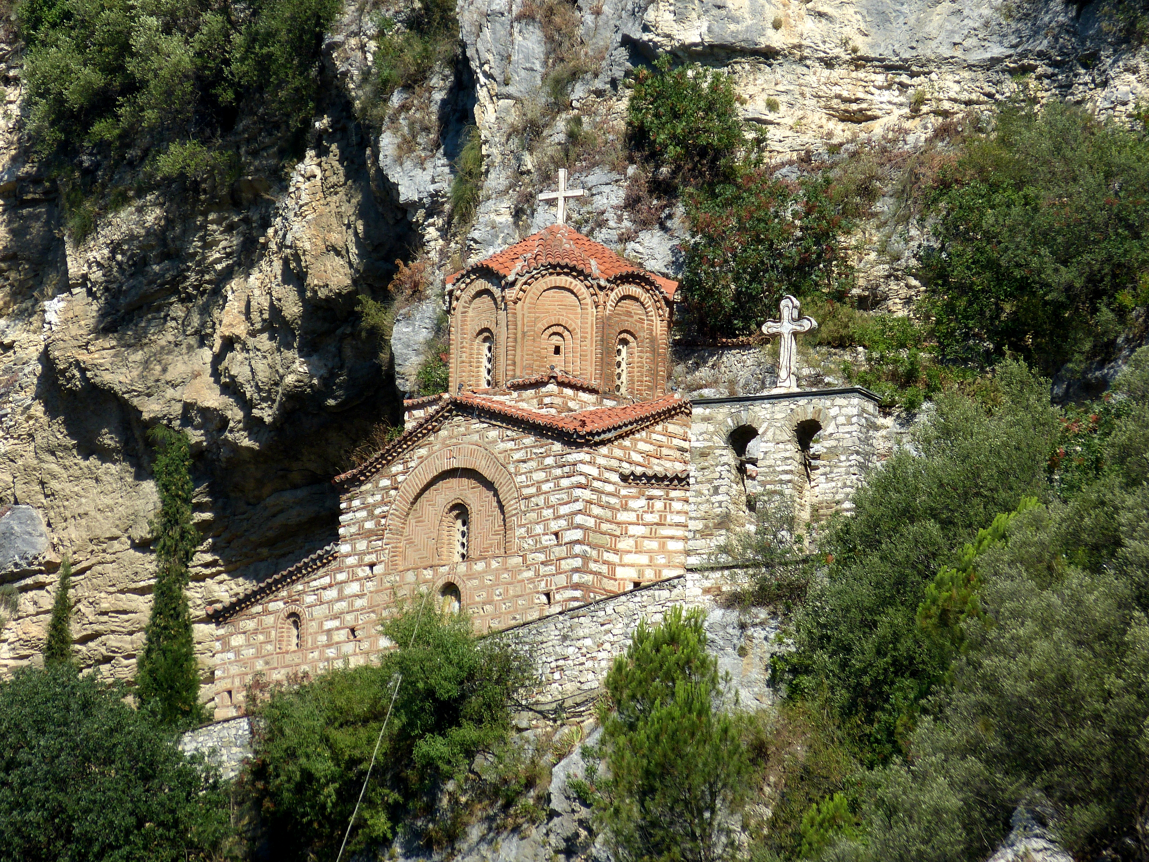 Berat (Albania). Borough of Kalaja - Church of Saint Michael ( 1300 )